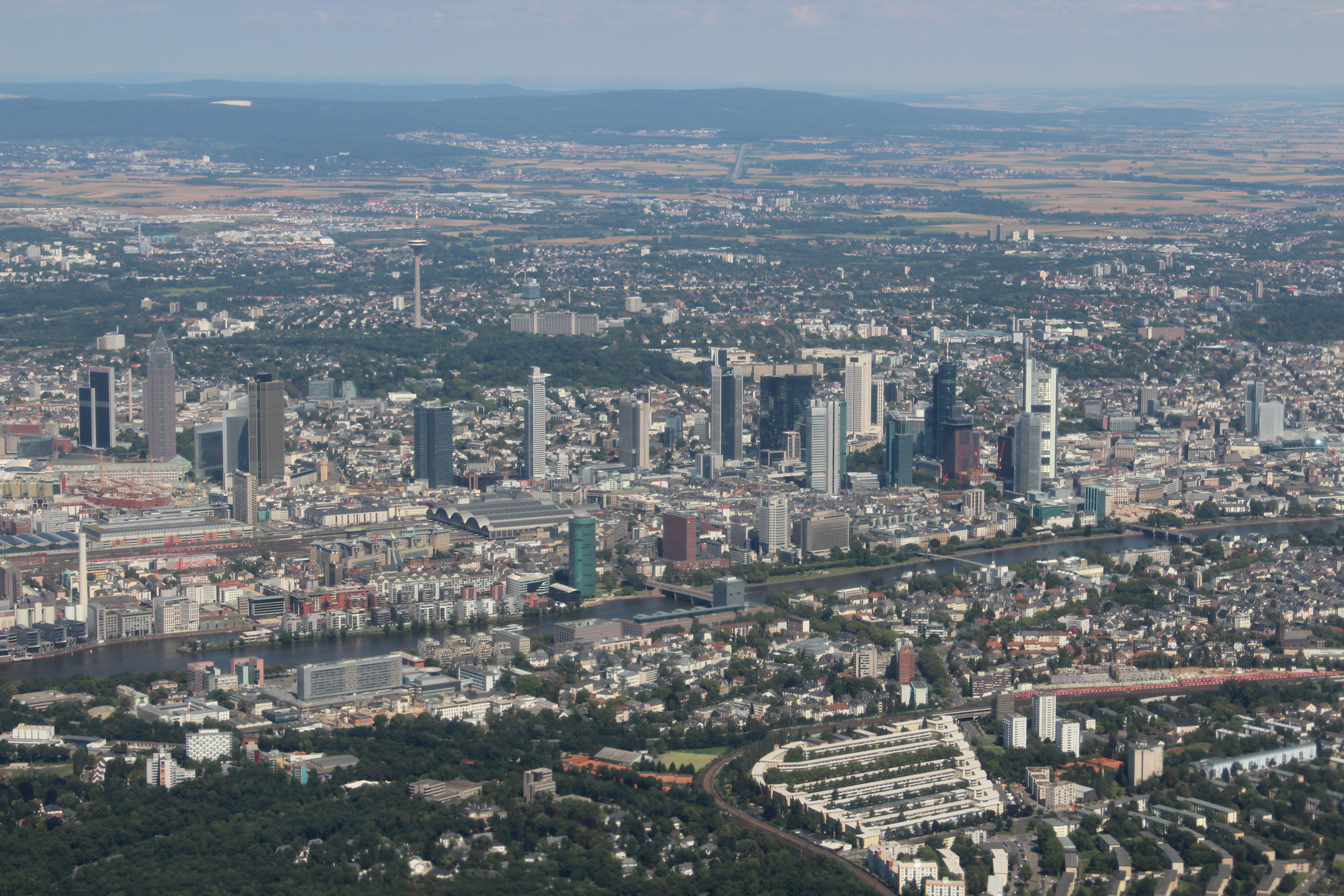 Mainhattan (Frankfurt am Main) as seen from a plane in August 2012